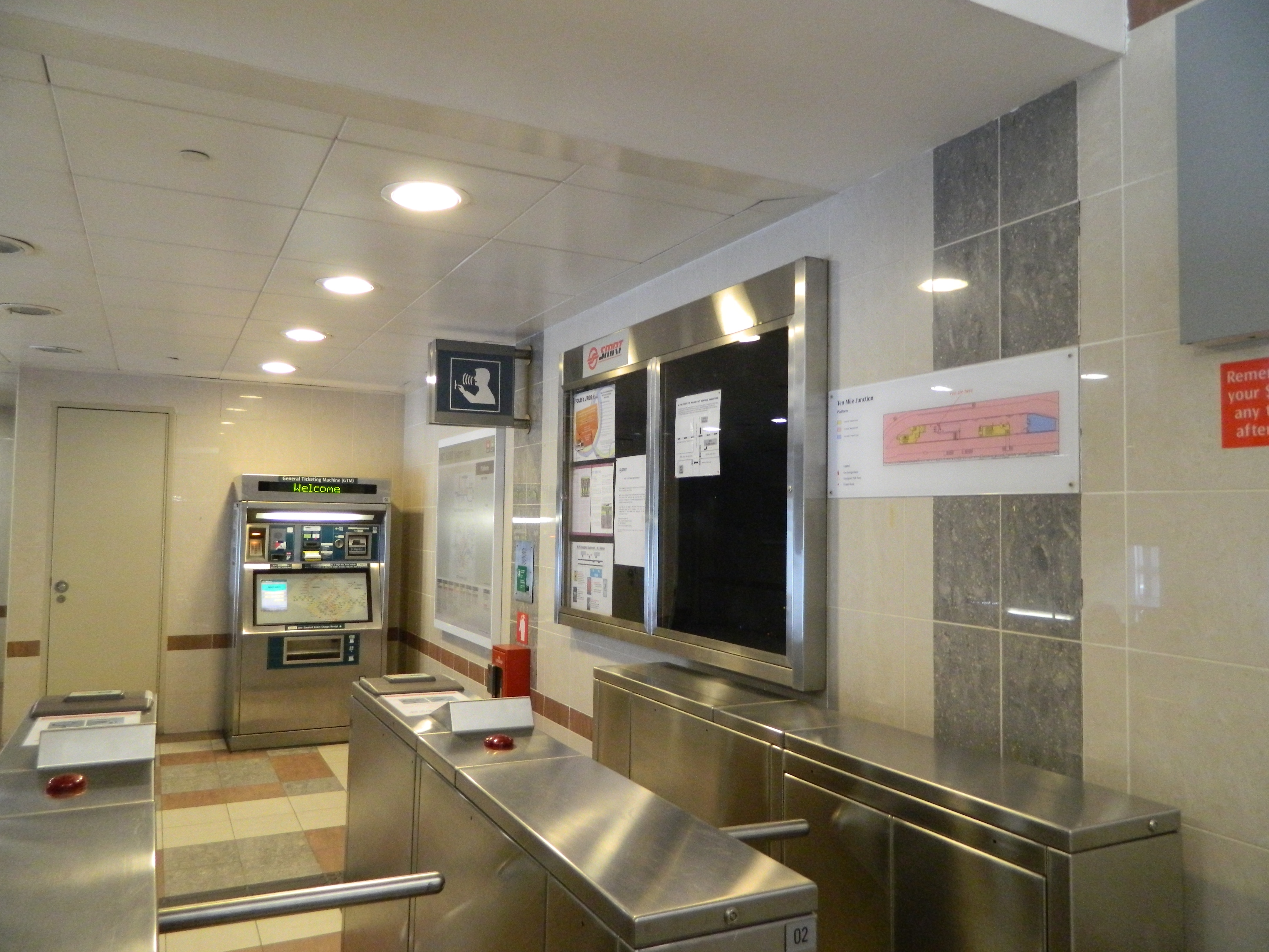 Intercom at Ten Mile Junction LRT station.